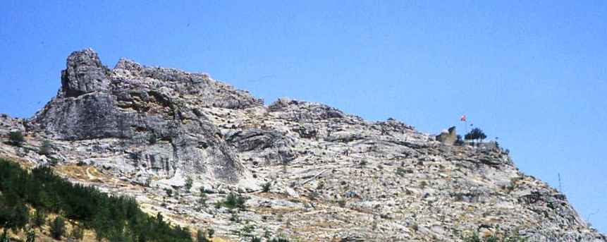 The "Throne of Salomon" and the House of Babur (extreme right), Osh, Kyrgyzstan